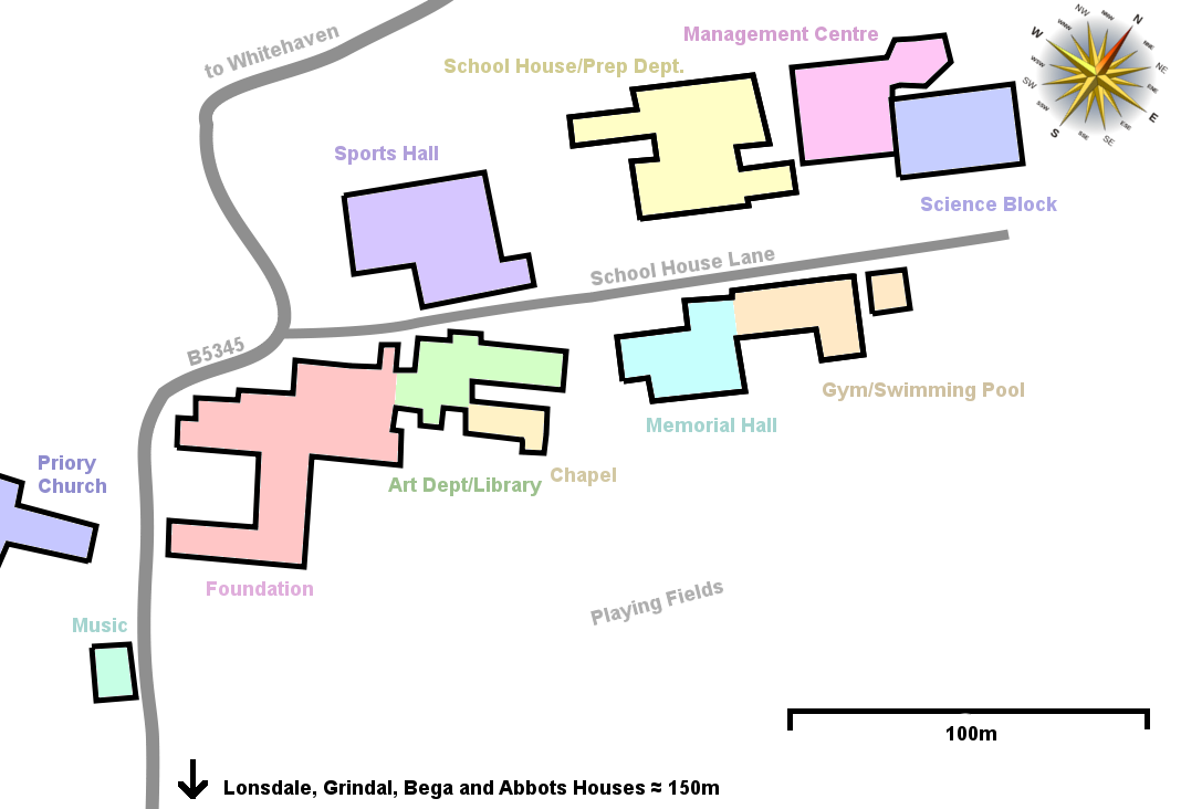 This is an overview map of St.Bees School, Cumbria, England, created for it's Wikipedia article.